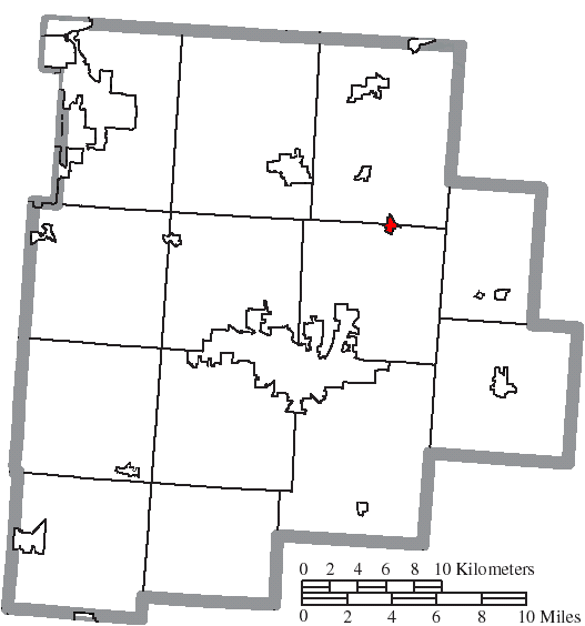 Map of the municipal and township boundaries of Fairfield County, Ohio, United States, as of the 2000 census, with the location of the village of Pleasantville highlighted. Township borders are shown only in unincorporated areas in order to differentiate incorporated and unincorporated areas more clearly.